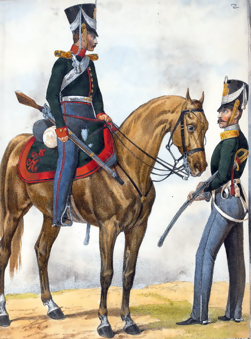 Russian soldiers from 1827